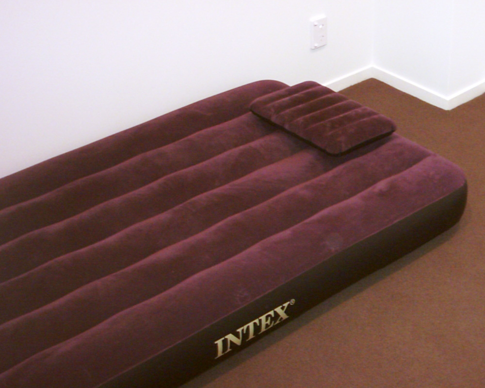 An air matress for use as a guest bed.